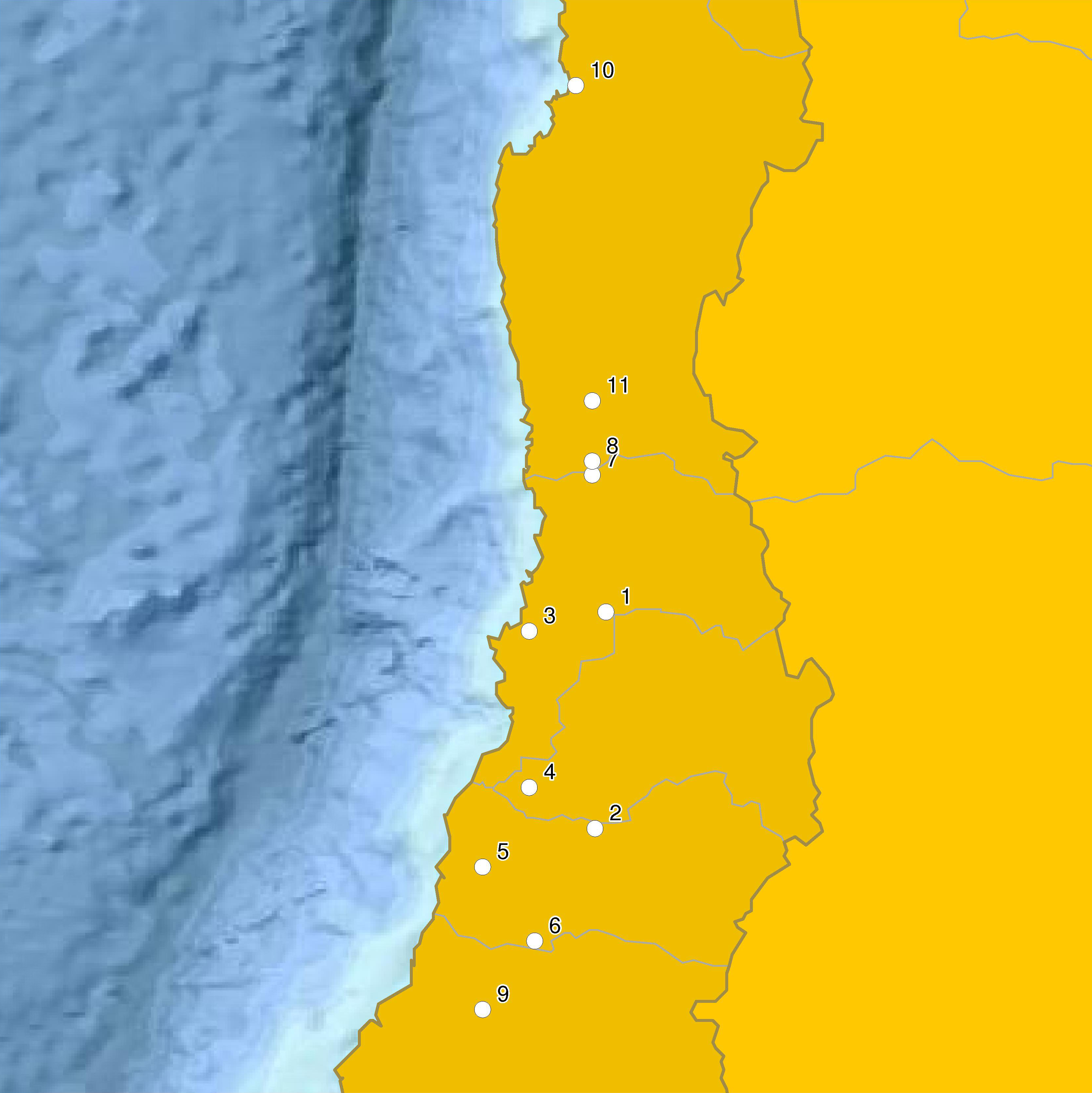 Natural populations of Chilean Palms according to Ecology and Management of the Chilean Palm Jubaea chilensis Ocoa, -32.95, -71.067 Cocalán, -34.2, -71.133 Viña del Mar, -33.067, -71.517 Cuesta Los Guindos, -33.967, -71.517 San Miguel de Las Palmas, -34.417, -71.783 La Candelaria, -34.85, -71.483 Tunel de Las Palmas Pedegua, -32.15, -71.15 Tilama Pichidangui, -32.083, -71.15 Tapihue Pencahue, -35.25, -71.783 La Serena, -29.9, -71.25 Limahuida Los Vilos, -31.733, -71.15